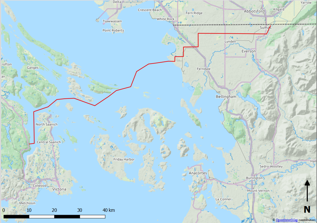 Approximate route of the proposed pipeline. This map may be incomplete, and may contain errors. Don't rely solely on it for navigation.